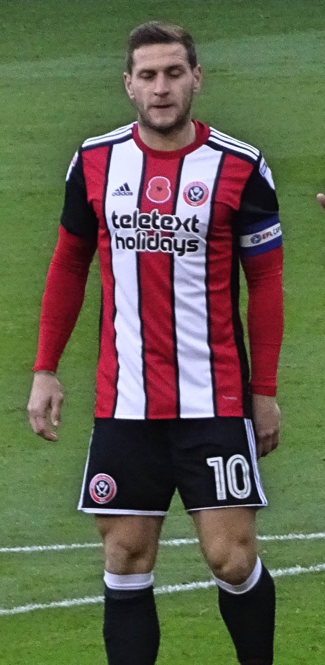 Billy Sharp playing for Sheffield United against Hull City at Bramall Lane, Sheffield on 4 November 2017